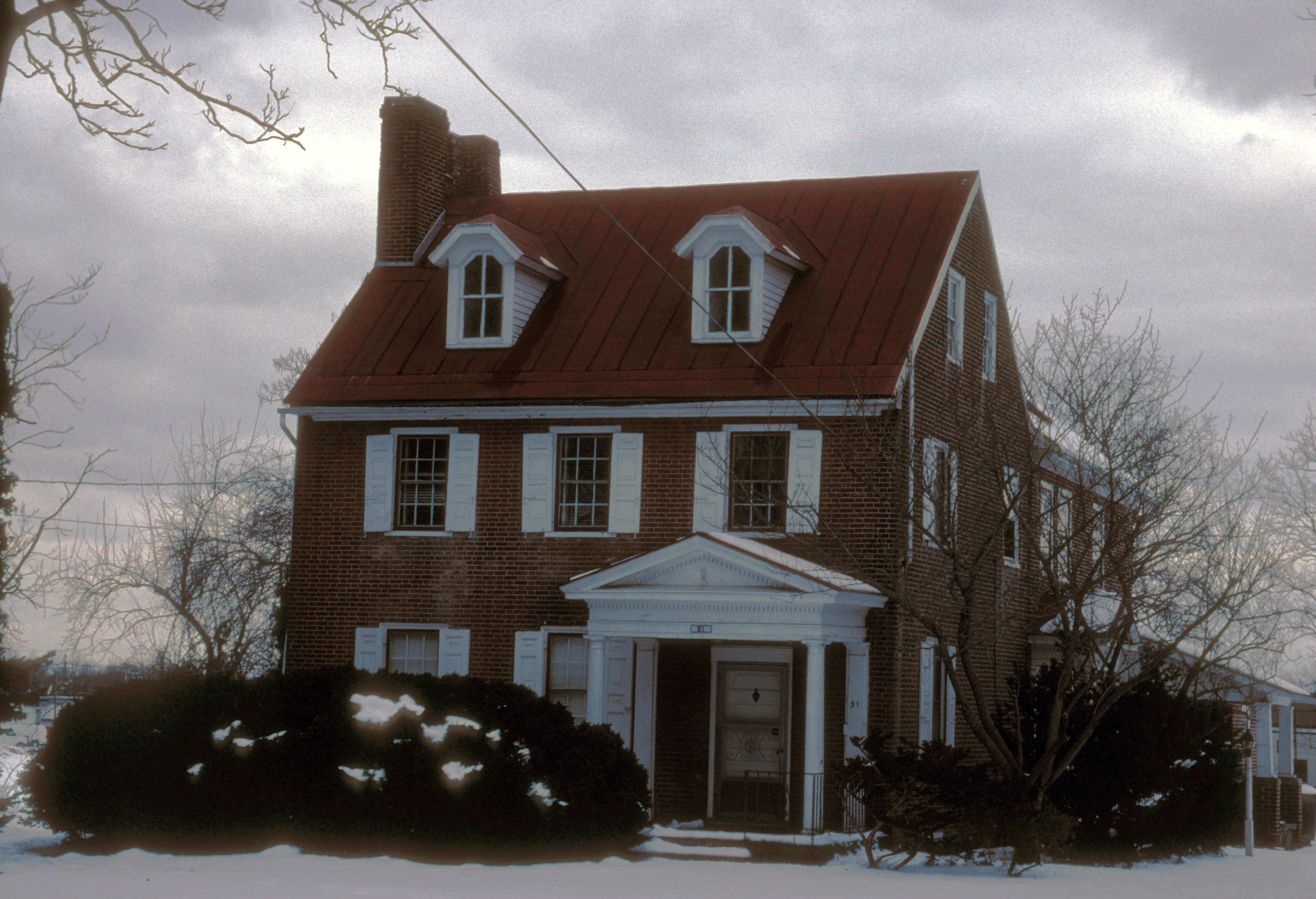 1760 AND ADDED TO IN 1820 BY HAINES’ GRANDSON